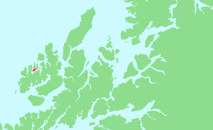 Locator map of Nærøya, Nordland, Norway